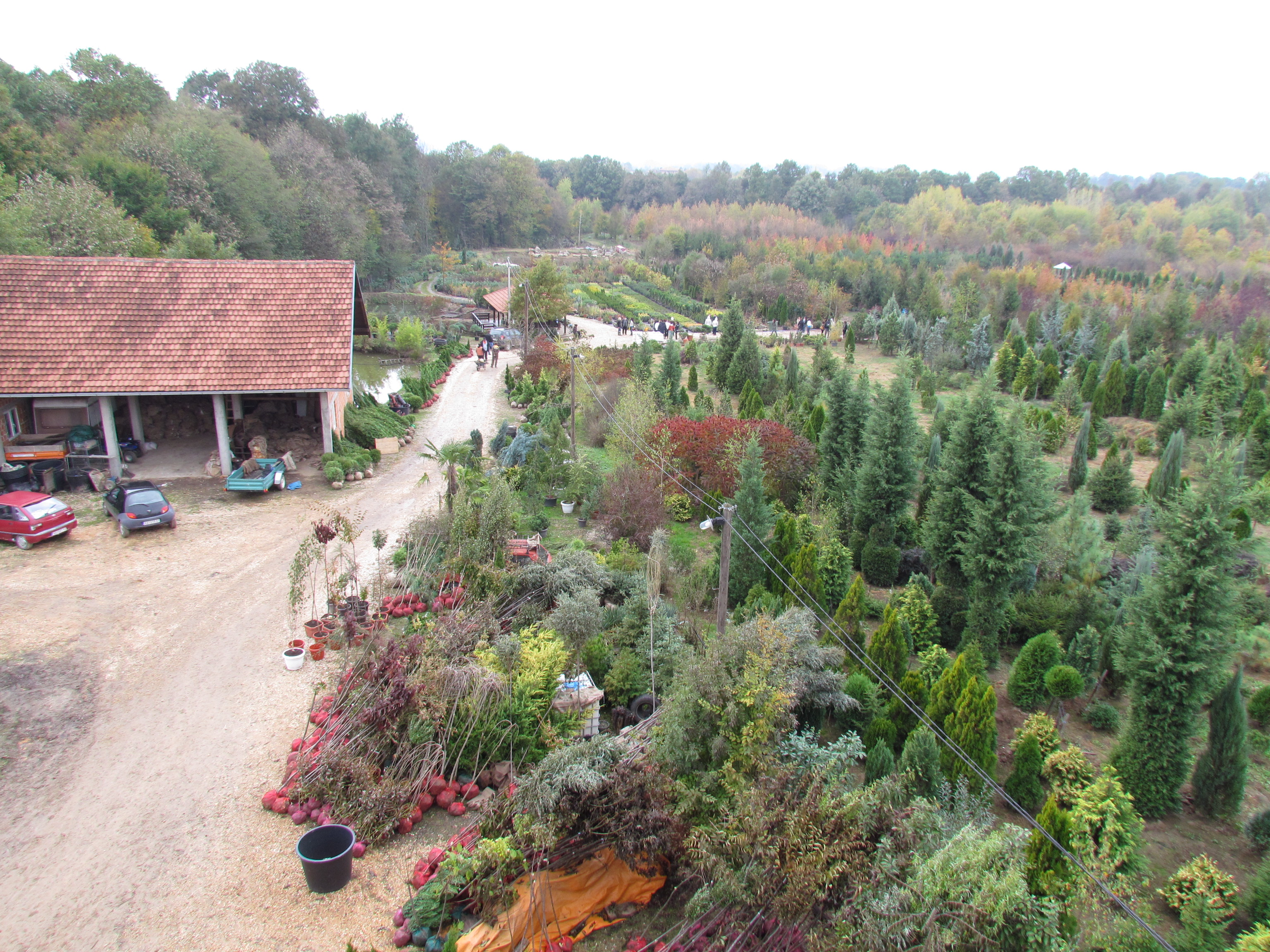 Serbian nursery Lepopolje, Ljig (photo: Mihailo Grbić, 2011)